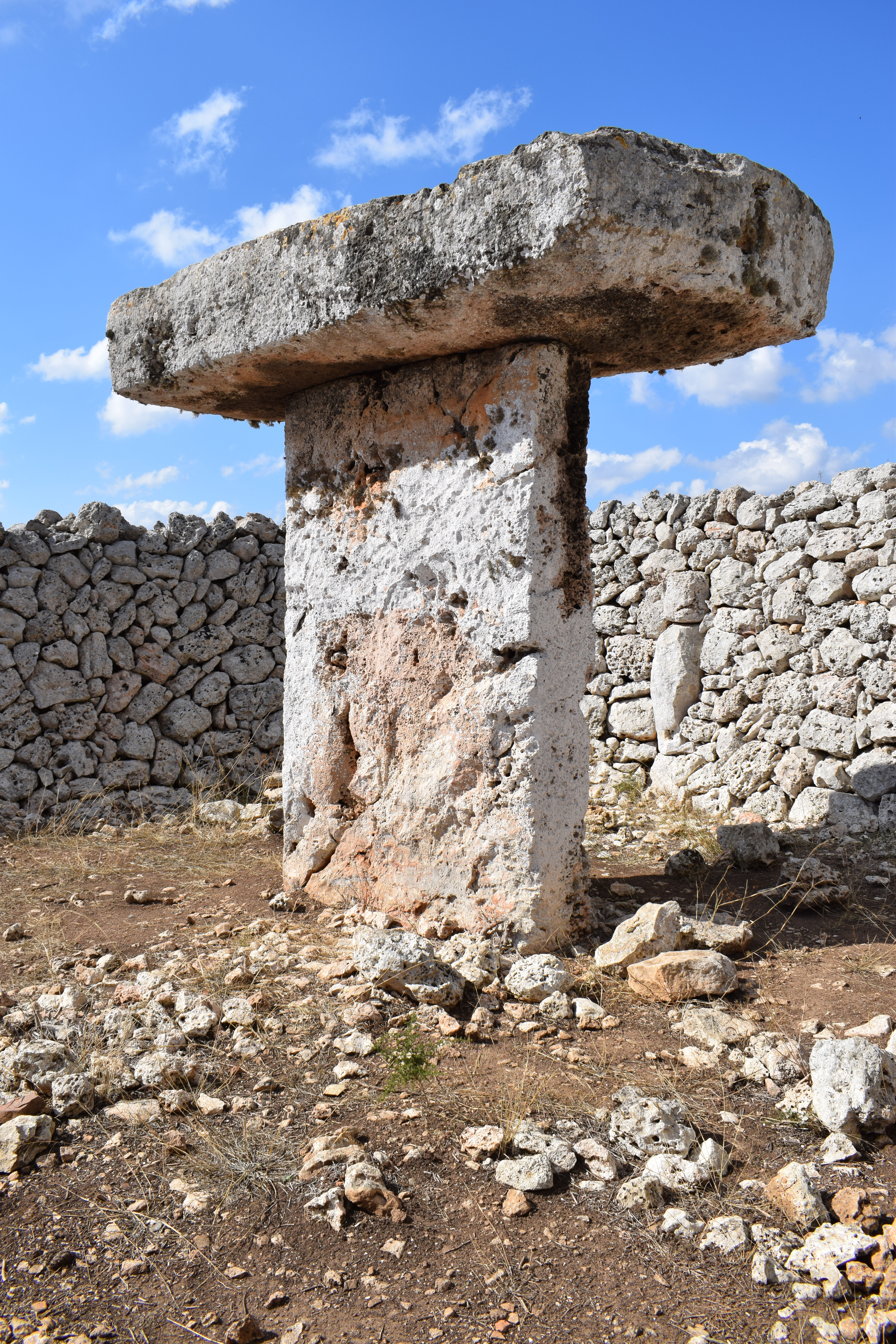 Torrellisar Vell Taula, Alaior, Minorca.